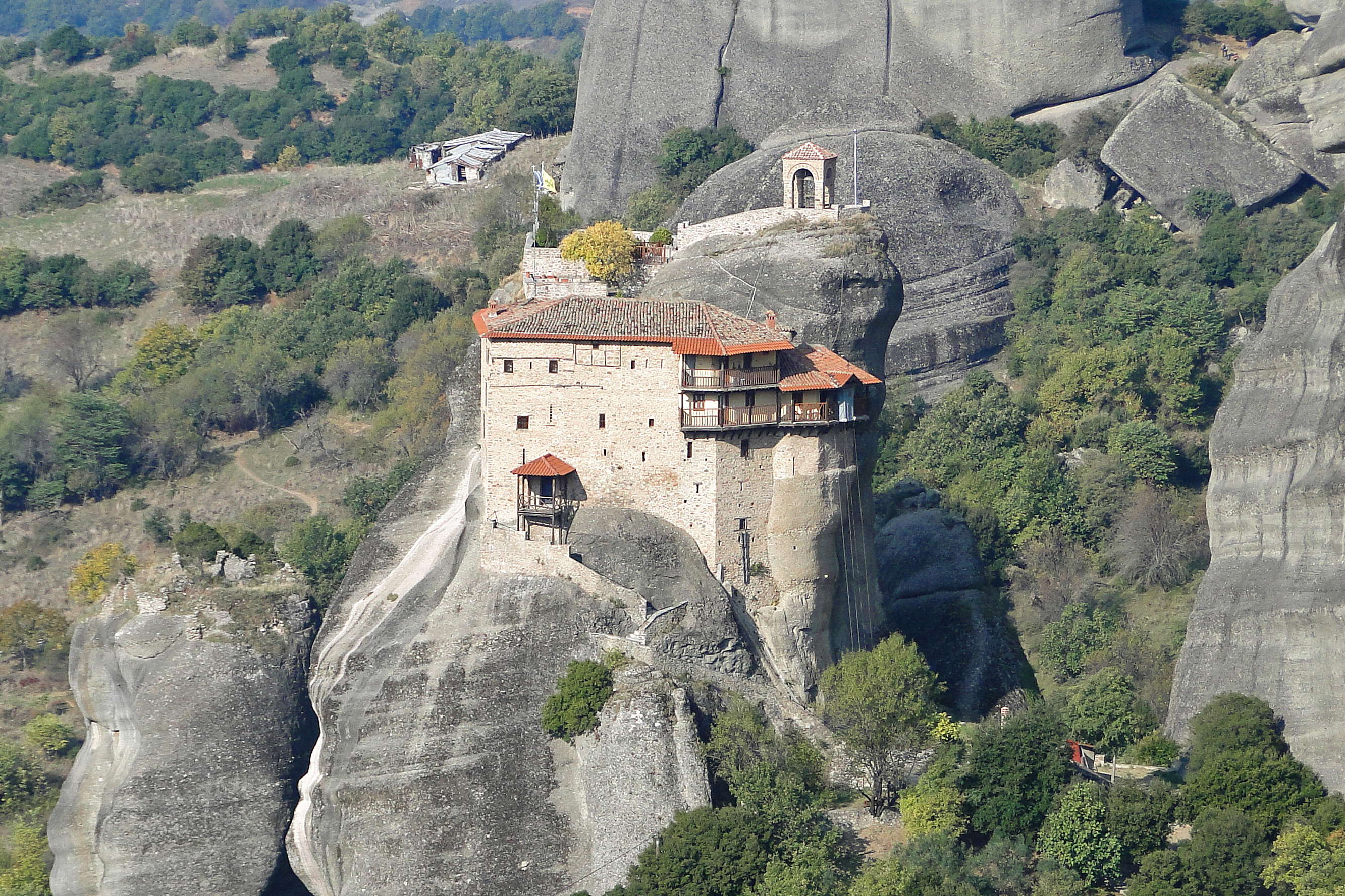 St Nicholas Monastery, Meteora, Greece